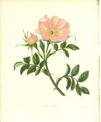 This is a chromolithograph by Anne Pratt 1806- 1893. The artist was born in Strood Kent. The image is of a Dog Rose.